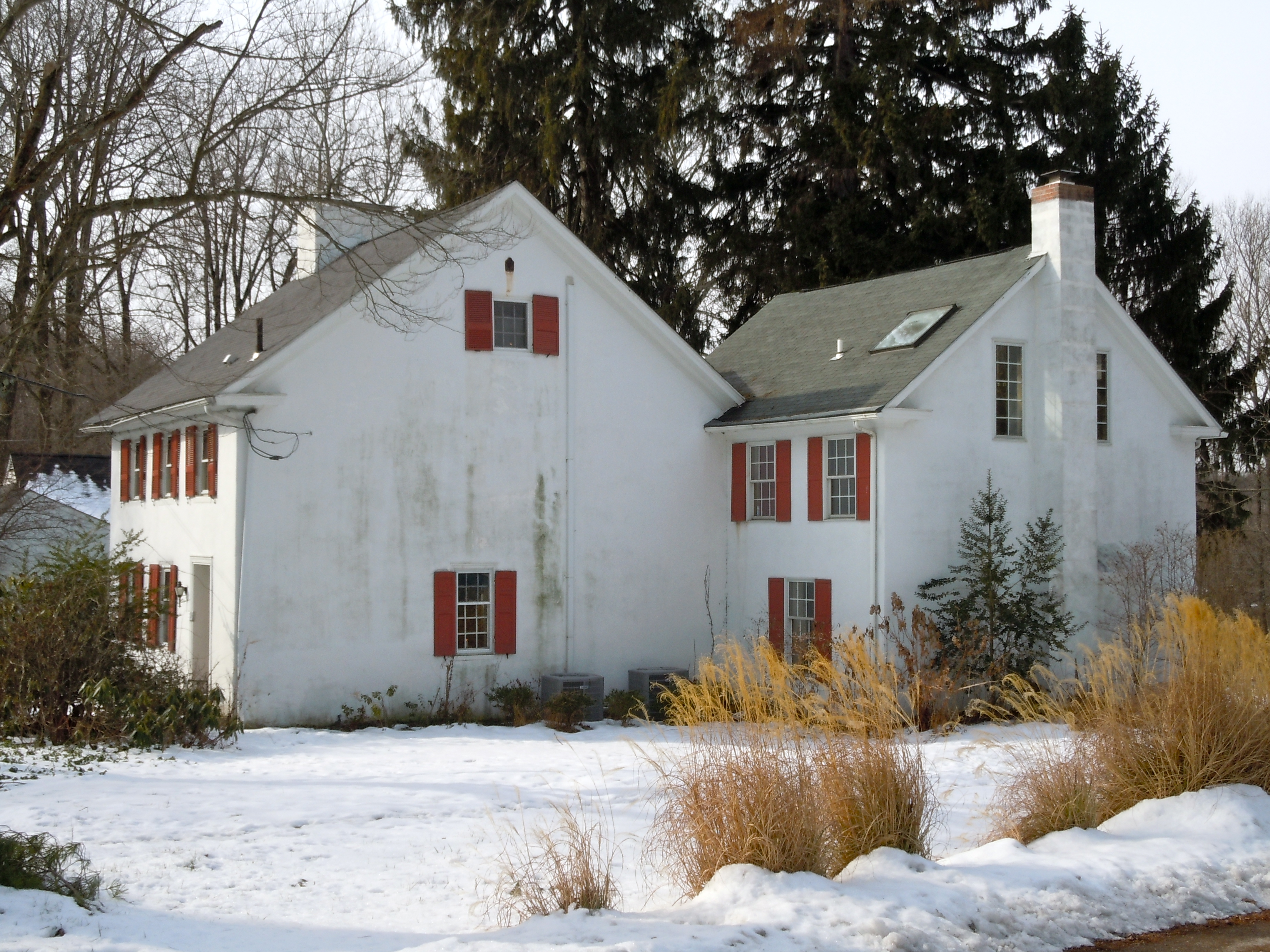 Daniel Meredith House on the NRHP since August 2, 1984, at 1358 Glen Echo Road, in West Whiteland Township, Chester County, Pennsylvania.